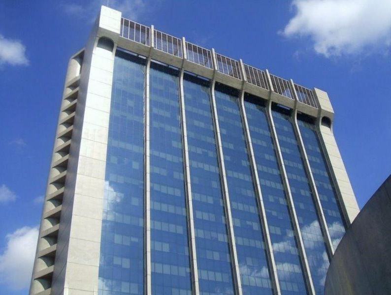 IBM headquarters in São Paulo, Brazil.